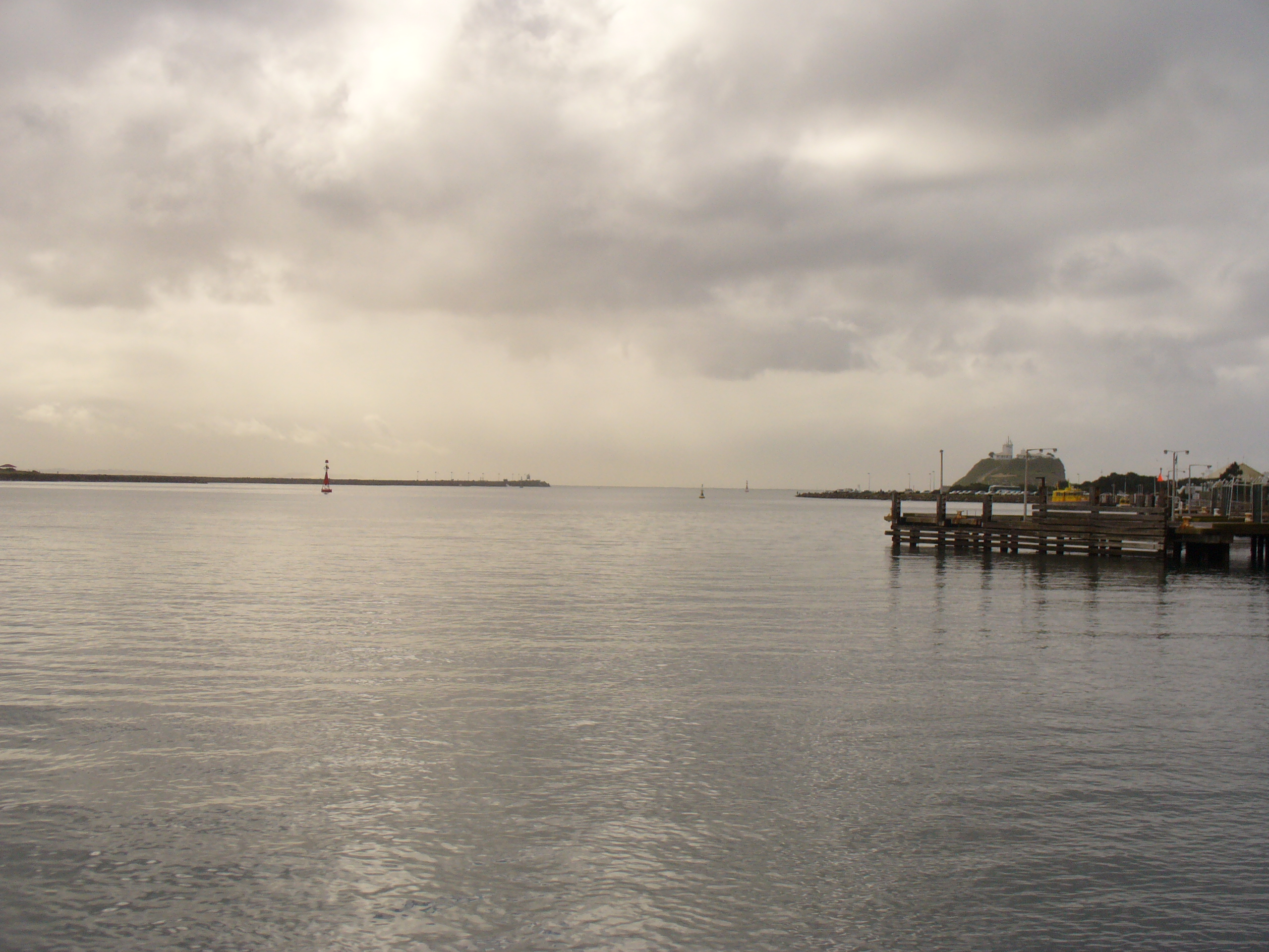 Hunter River at Newcastle, New South Wales, Australia